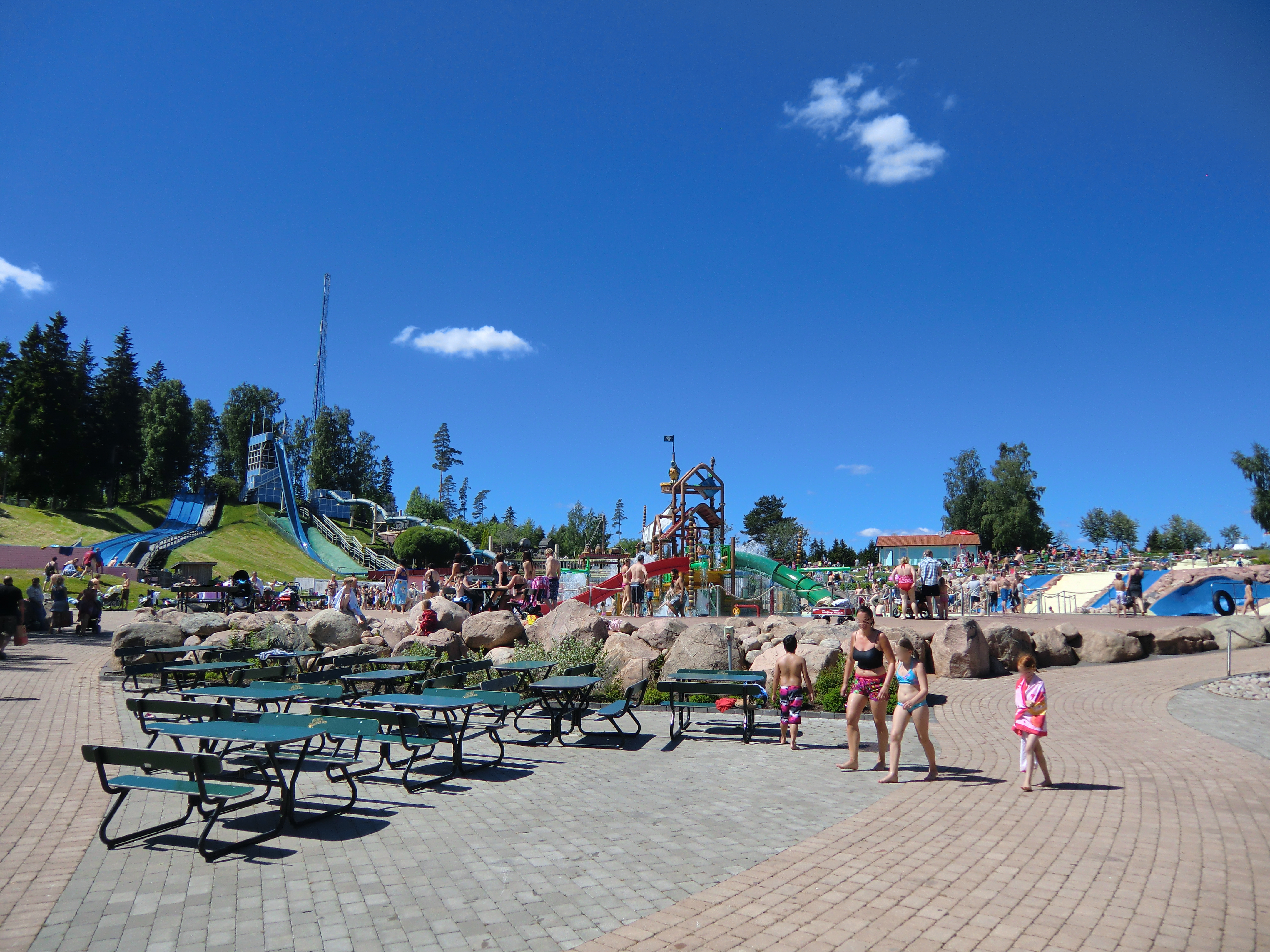 Vattenparken at Skara Sommarland, Skara Municipality, Västergötland, Sweden.